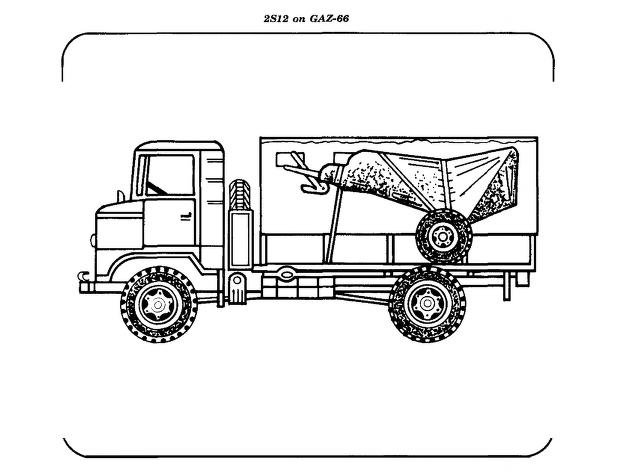 Illustration showing the 2S12 mortar carried in a Soviet GAZ-86 truck. Cropped from the book shown.